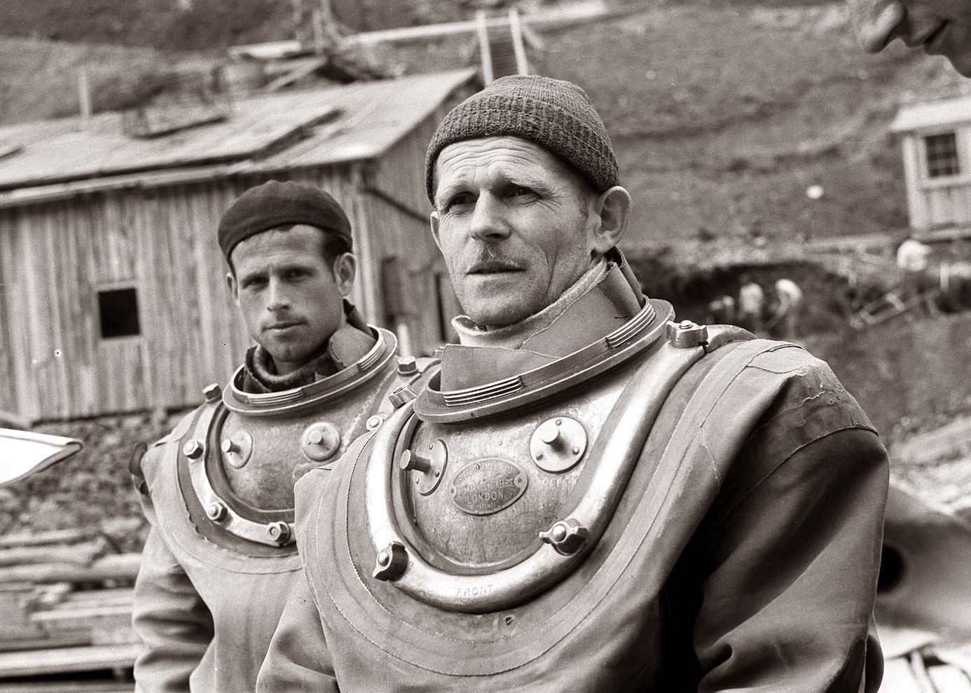 Divers Leon Nalaslovski (right) and Anton Hajdinjak at the Ožbalt hydroelectric power plant construction site.